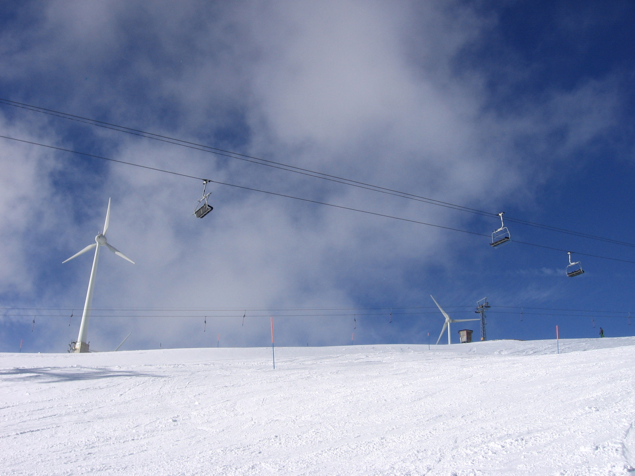 A picture of Naetschen.